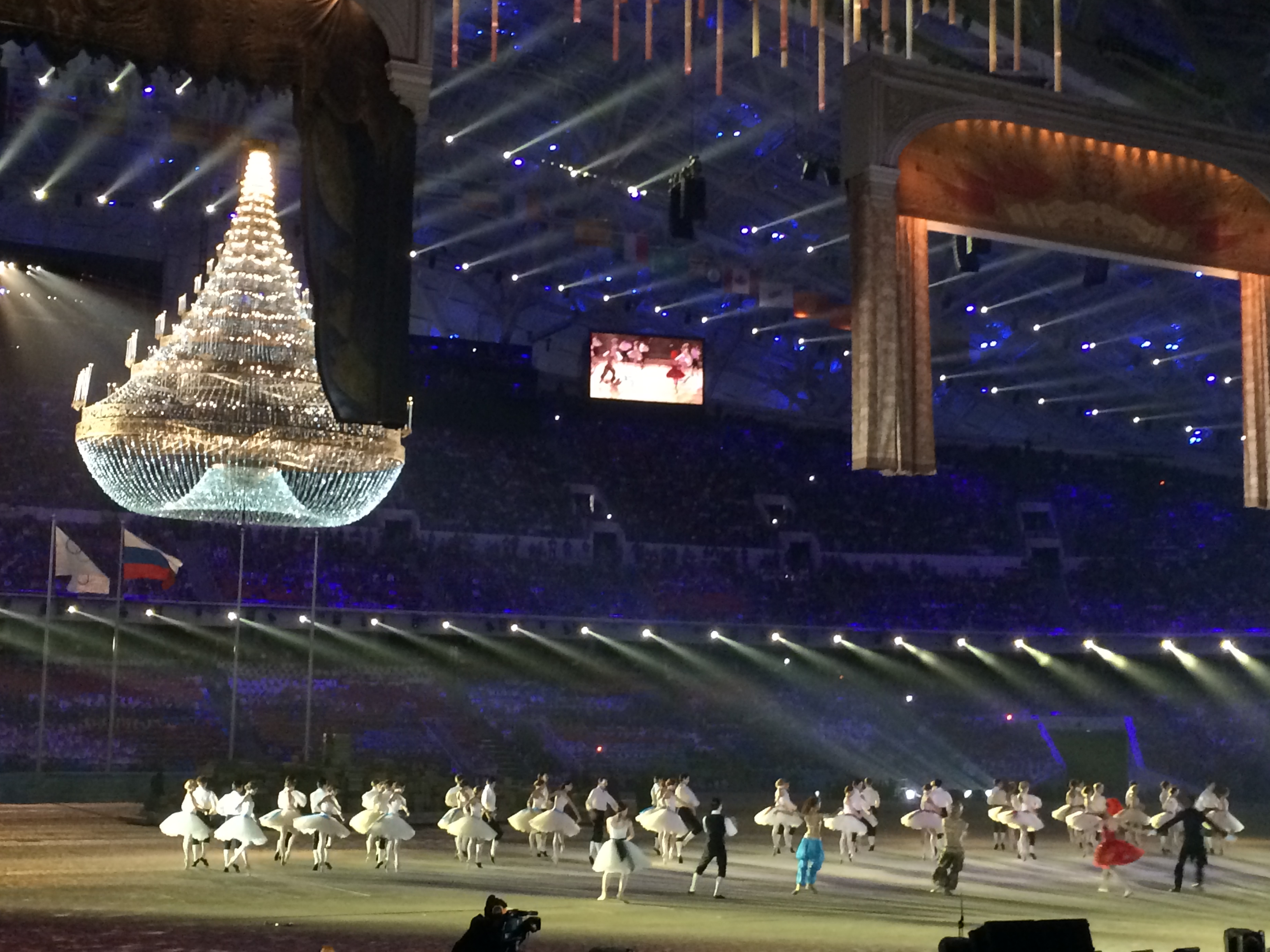 Closing Ceremony, Fisht Olympic Stadium (36)